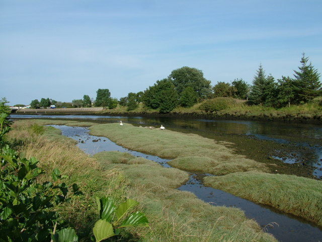 River Nairn at Nairn. Looking towards the Lochloy Holiday Park.